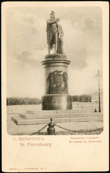 Saint Petersburg (Russia), Field of Mars.